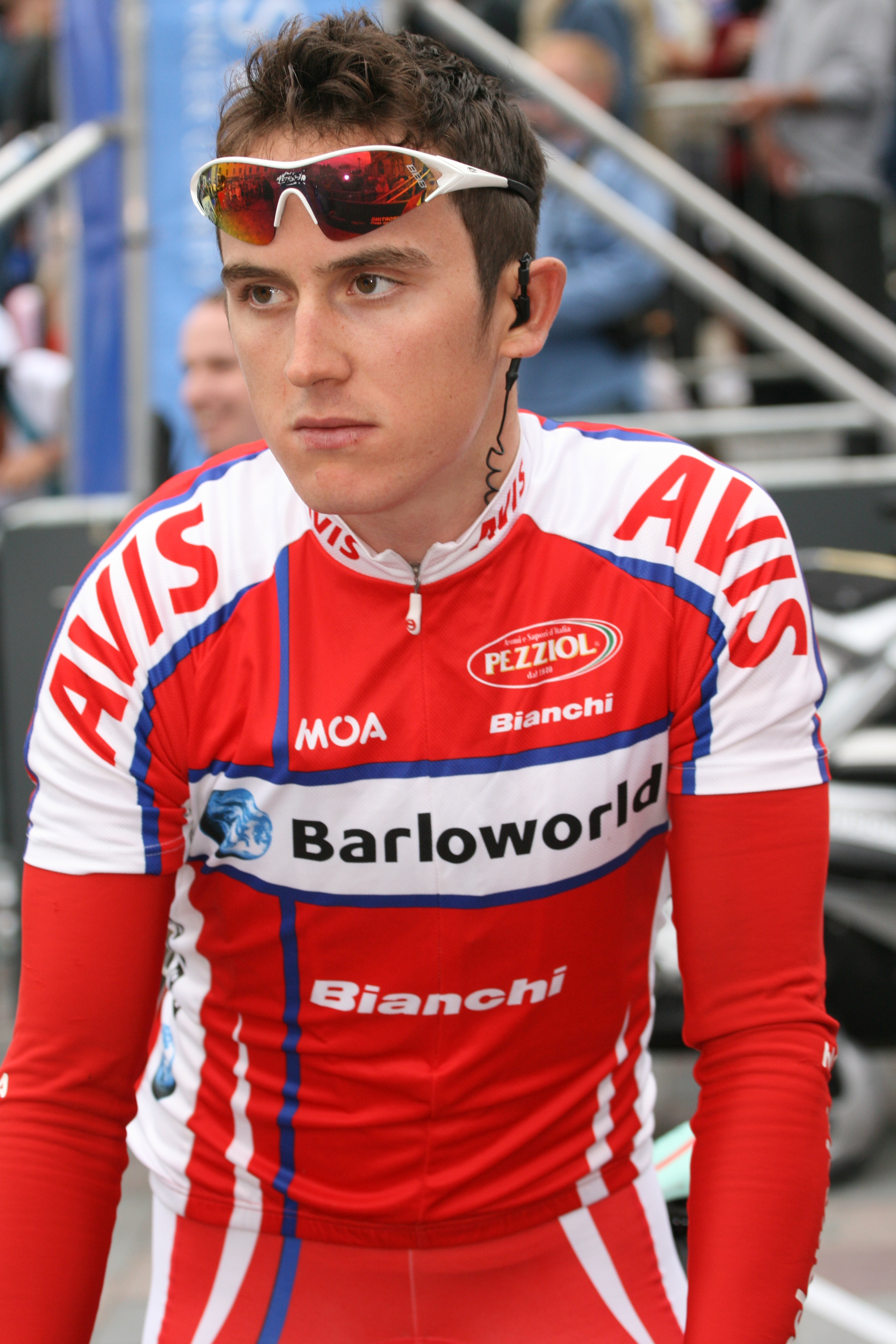 Geraint Thomas at the start of Stage 2 of the 2009 Tour of Britain in Darlington.